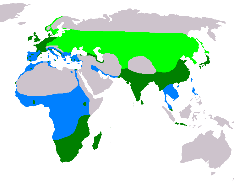 Grey Heron summer all year winter